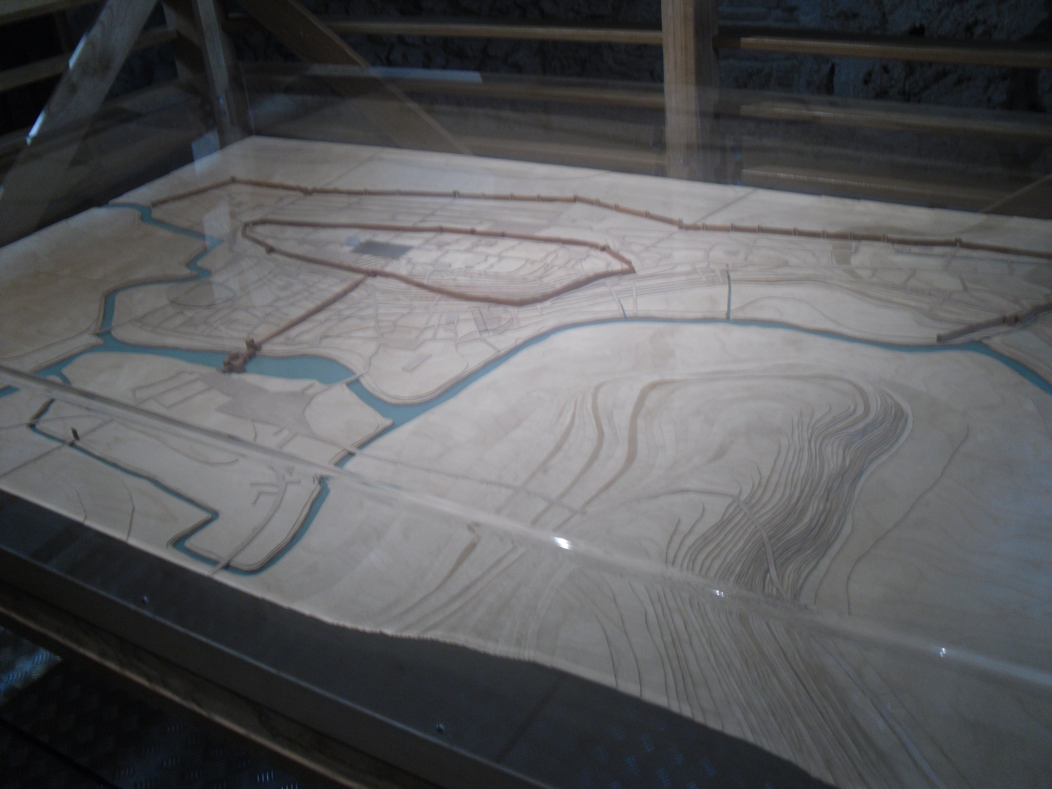 Reconstruction of Rieti during Roman empire